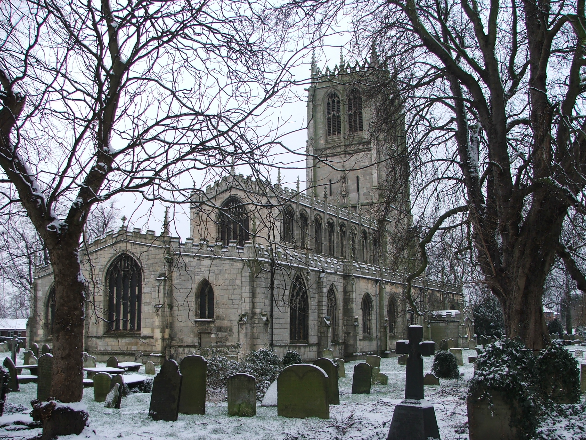 St Mary's Church Tickhill. The Church was built in the 13th Century. This view is looking West.